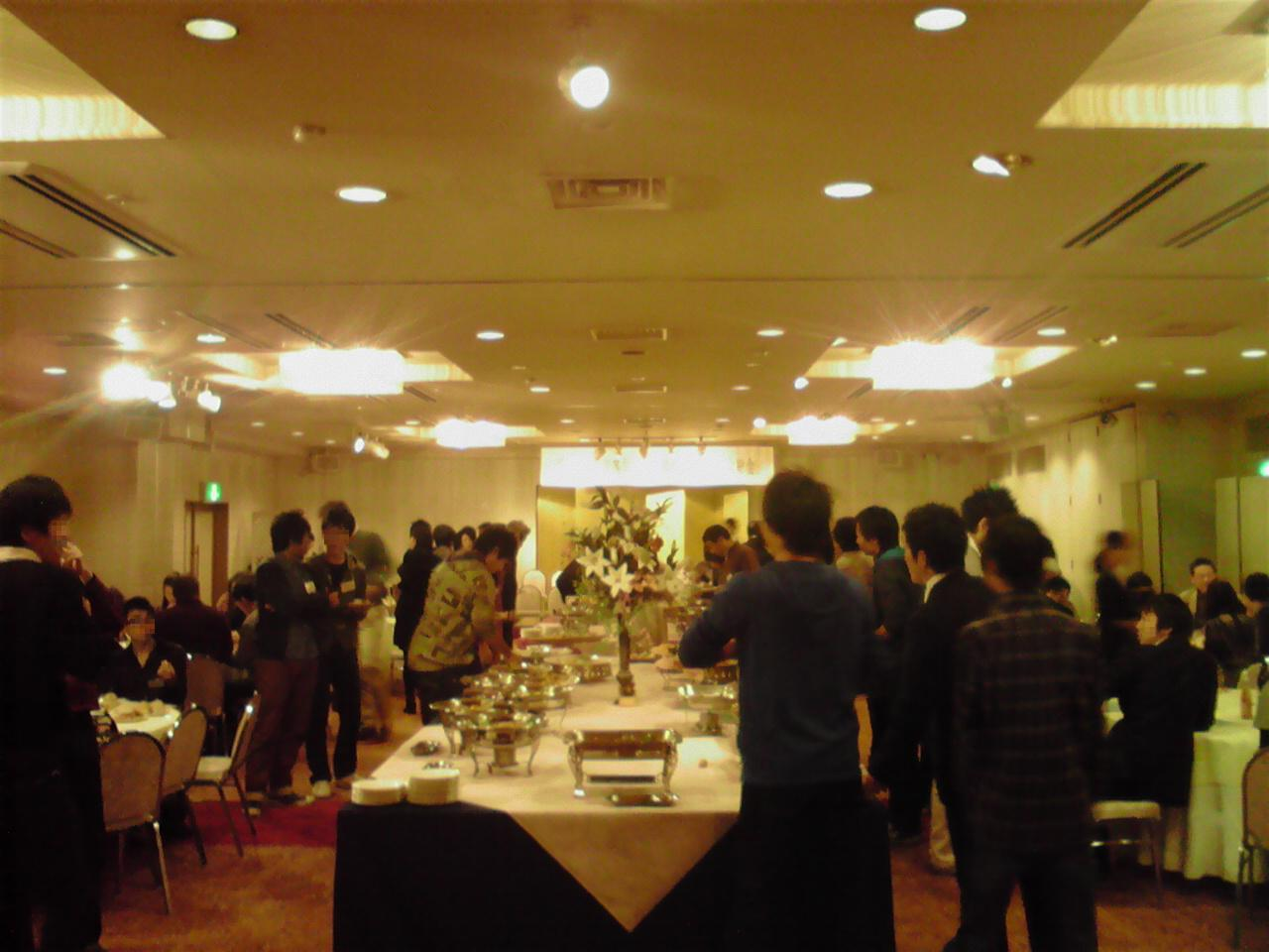 This is an alumni association ceremony in Japan.